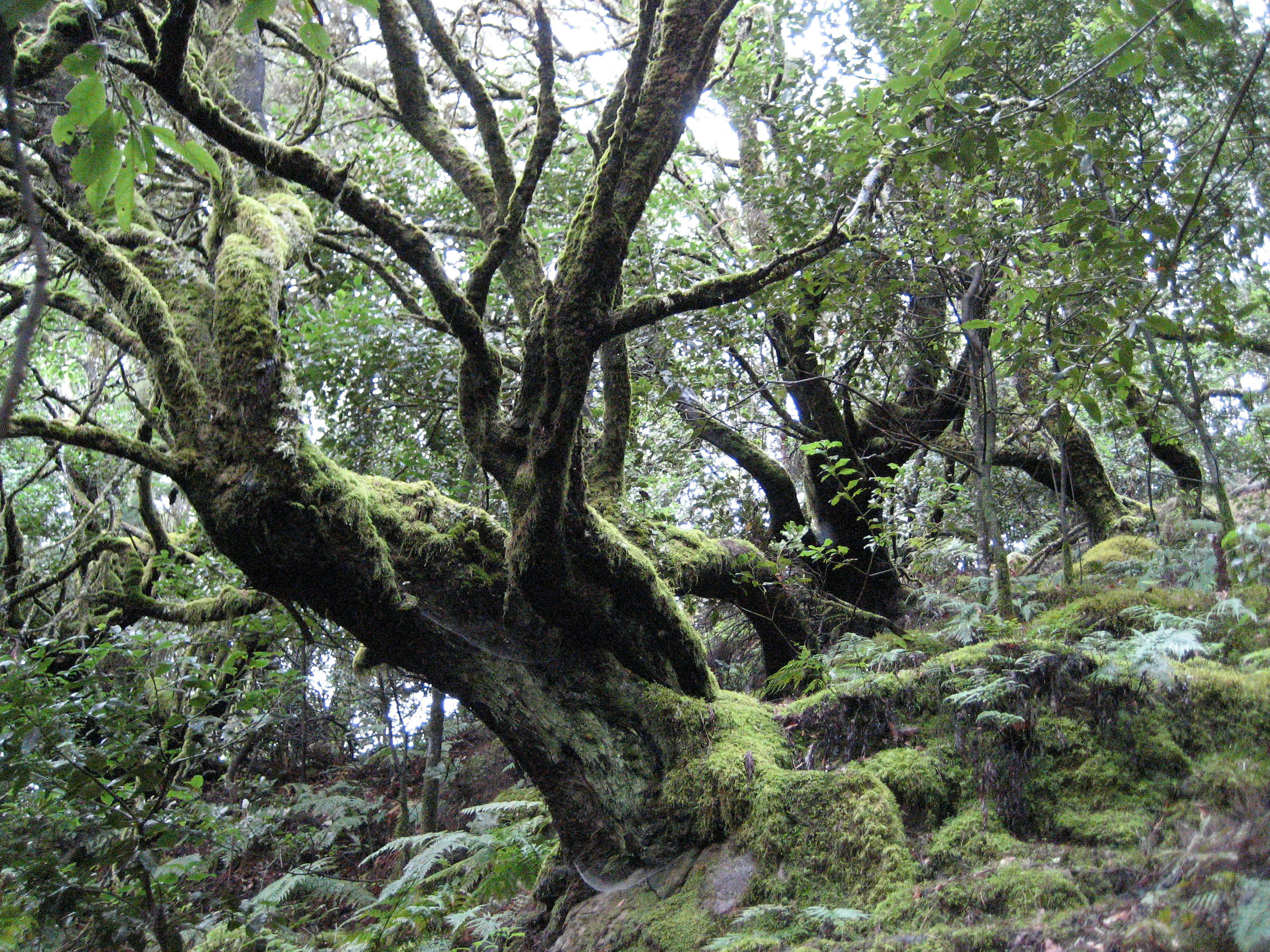 Trees in part of Garajonay National Park, La Gomera